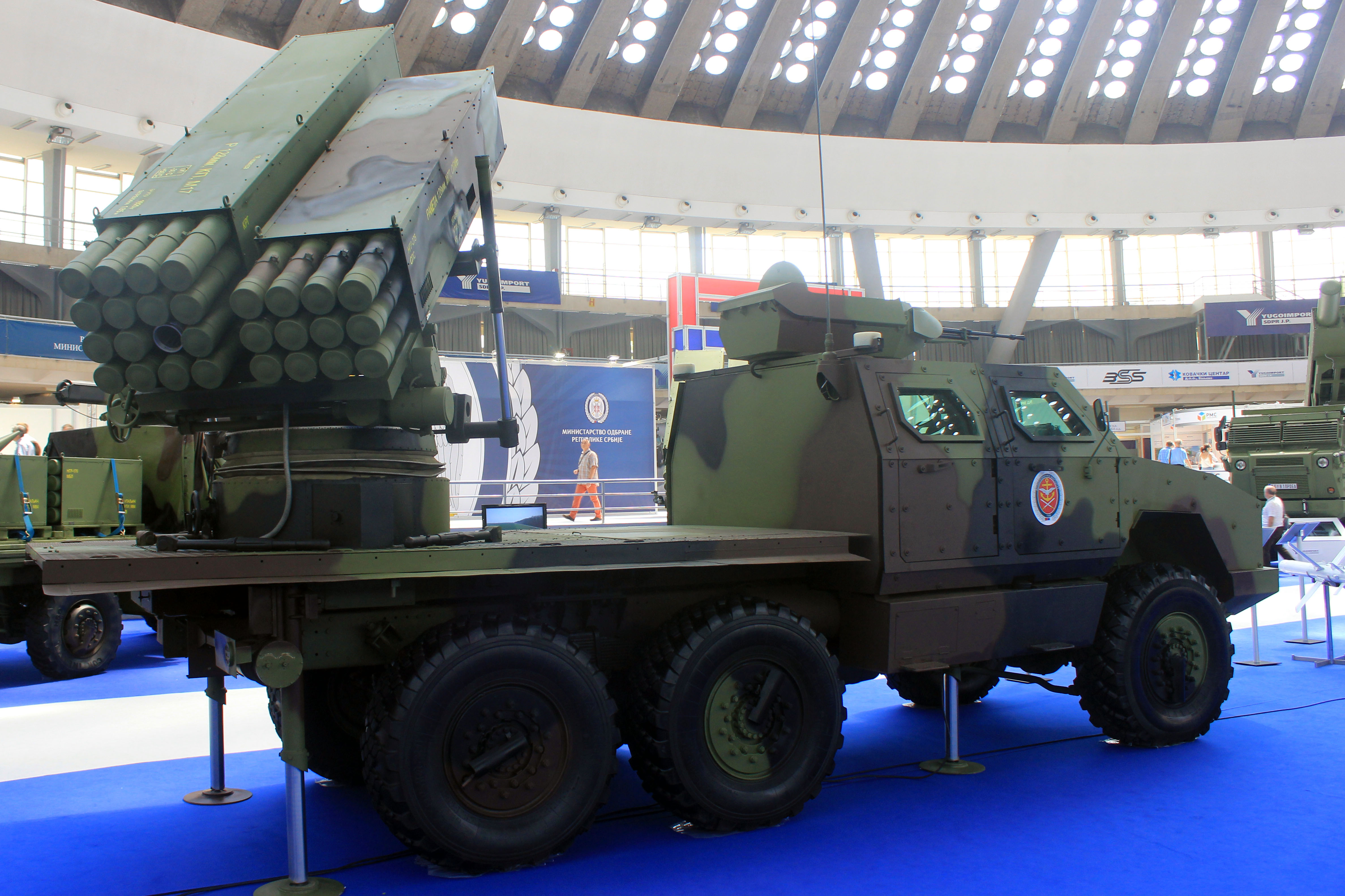 Modernized self-propelled multiple rocket launcher M-77 Oganj with new armored cab and modular rocket launch containers on display at Partner 2017 military fair.